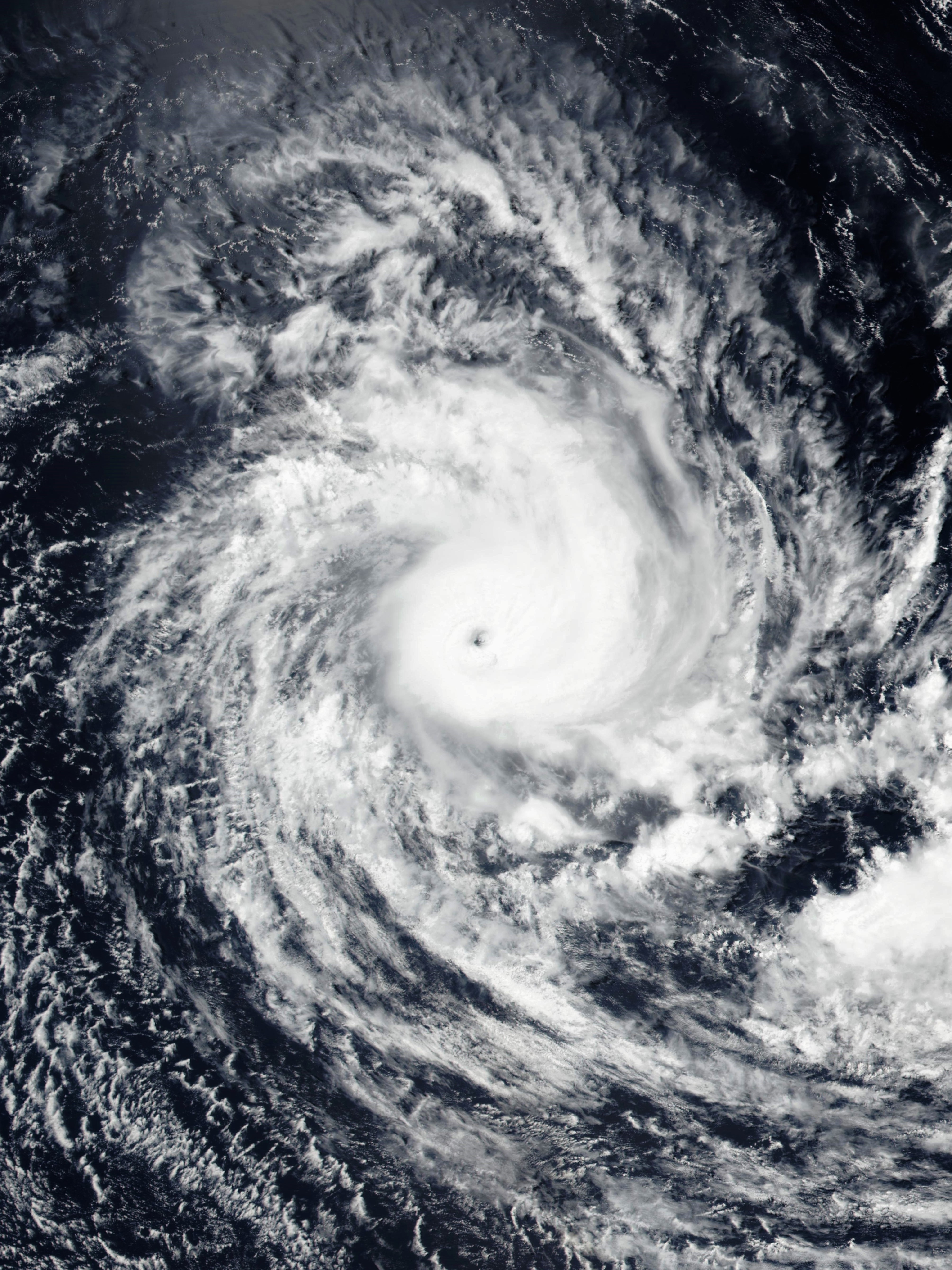 Severe Tropical Cyclone Savannah at peak intensity over the Indian Ocean on 17 March 2019. The system is a Category 4 severe tropical cyclone on the Australian scale (ten-minute mean winds of 175 km/h) and is equivalent to a Category 3 major hurricane on the Saffir-Simpson hurricane wind scale (one-minute mean winds of 185 km/h).